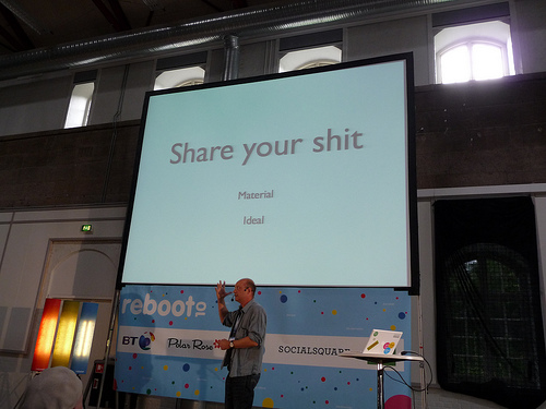 Ton Zijlstra's photo of Tor Nørretranders at Reboot 10 (with different license, CC BY SA, for use in Wikipedia)